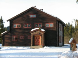 Picture of Lognvik Fjellstue, Rauland, Telemark, Norway